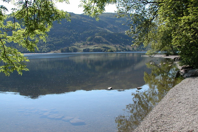 Place Fell viewed across Ullswater. Place Fell viewed from the shore of Ullswater near Glencoyne Bridge.